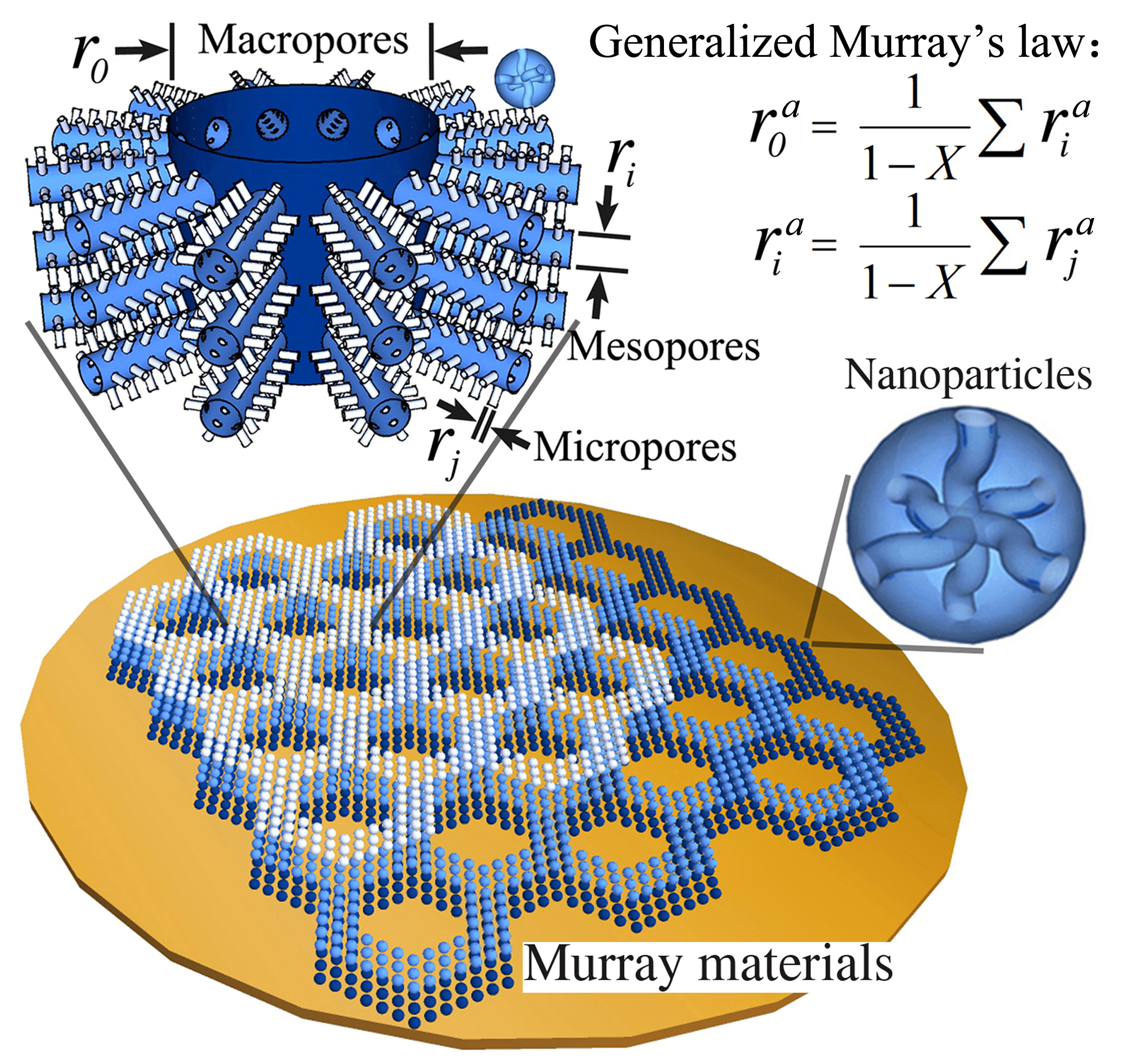 A diagram of Murray materials with macro-meso-micropores built by nanopaticles as building blocks.